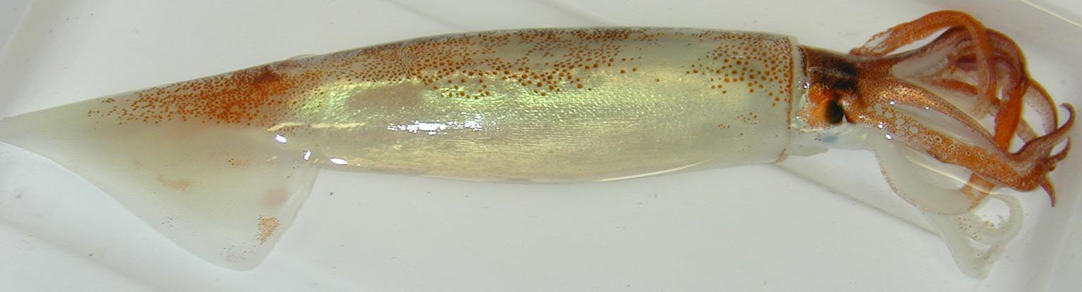 IIlex illecebrosus, the short-finned squid. A commercially important species.